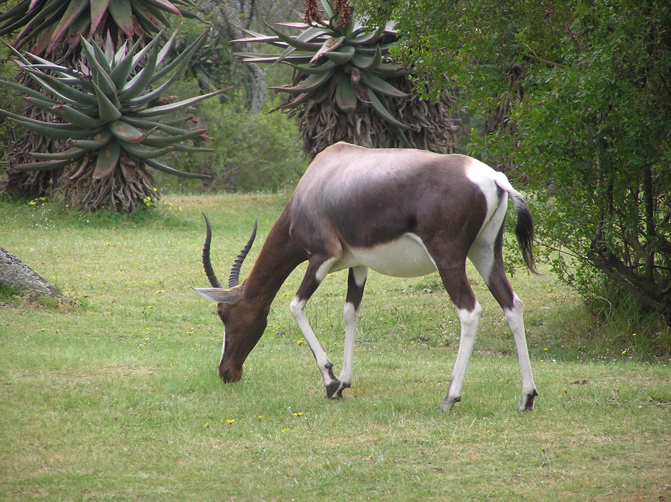 Bontebok (Damaliscus pygargus pygargus), Bontebok National Park, Western Cape, South Africa